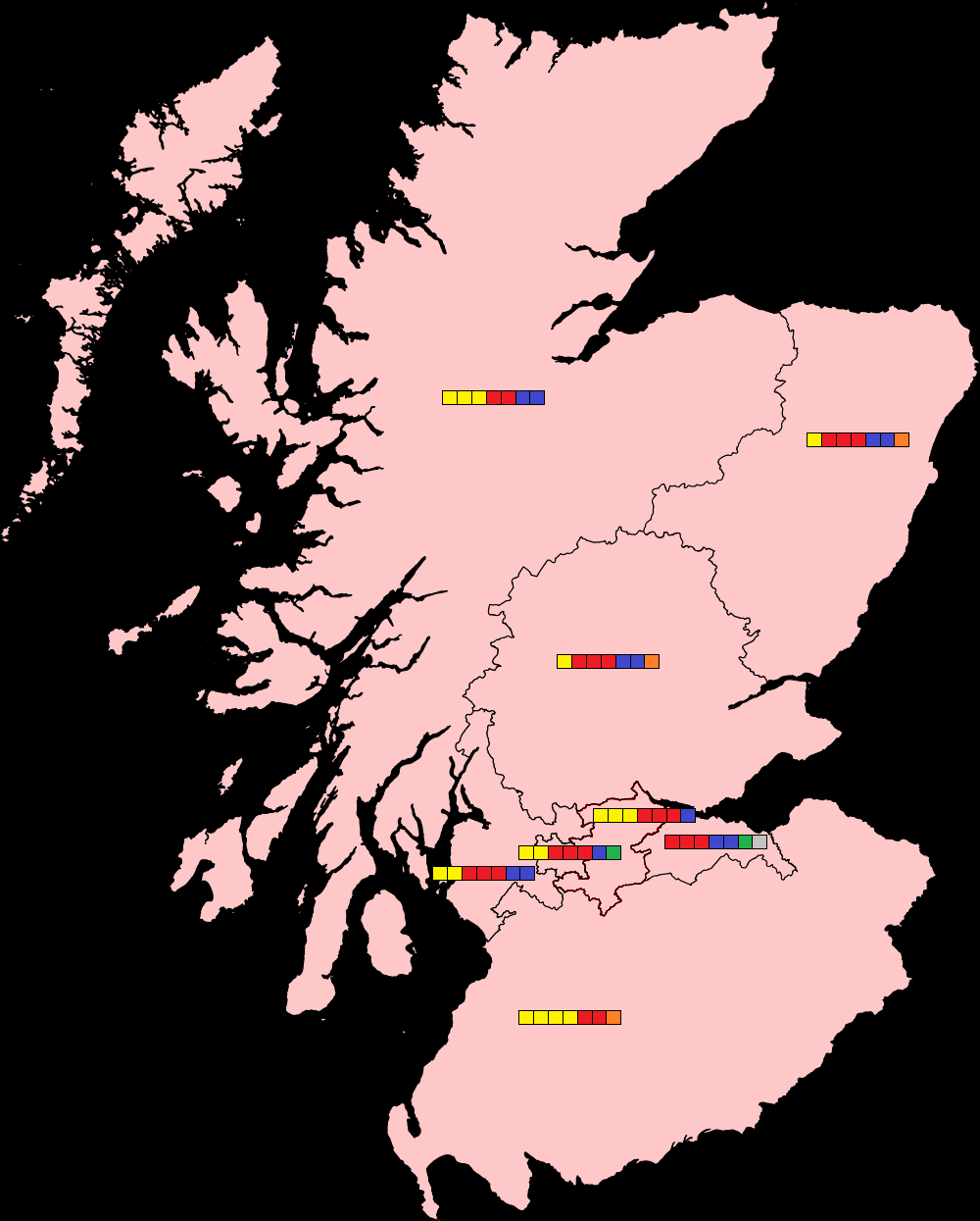 Regional list MSPs elected at the 2011 election